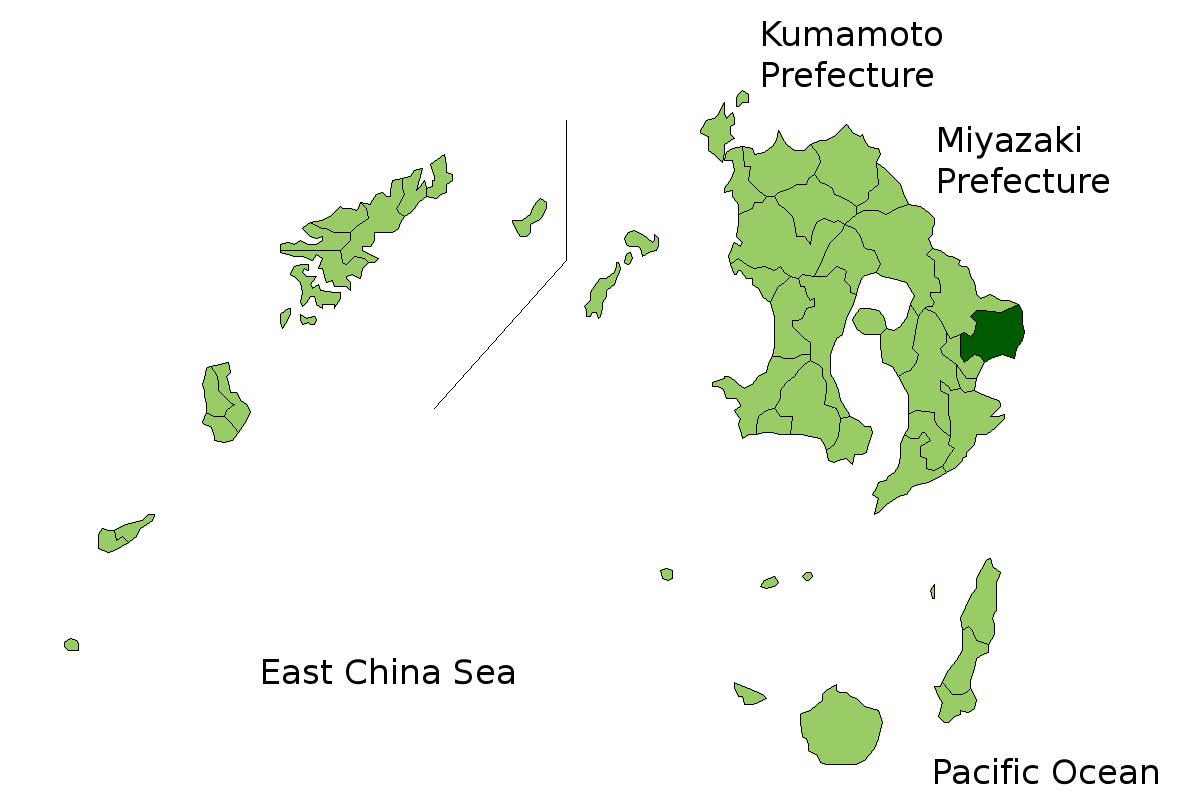 Location Map of Shibushi in Kagoshima Prefecture, Japan